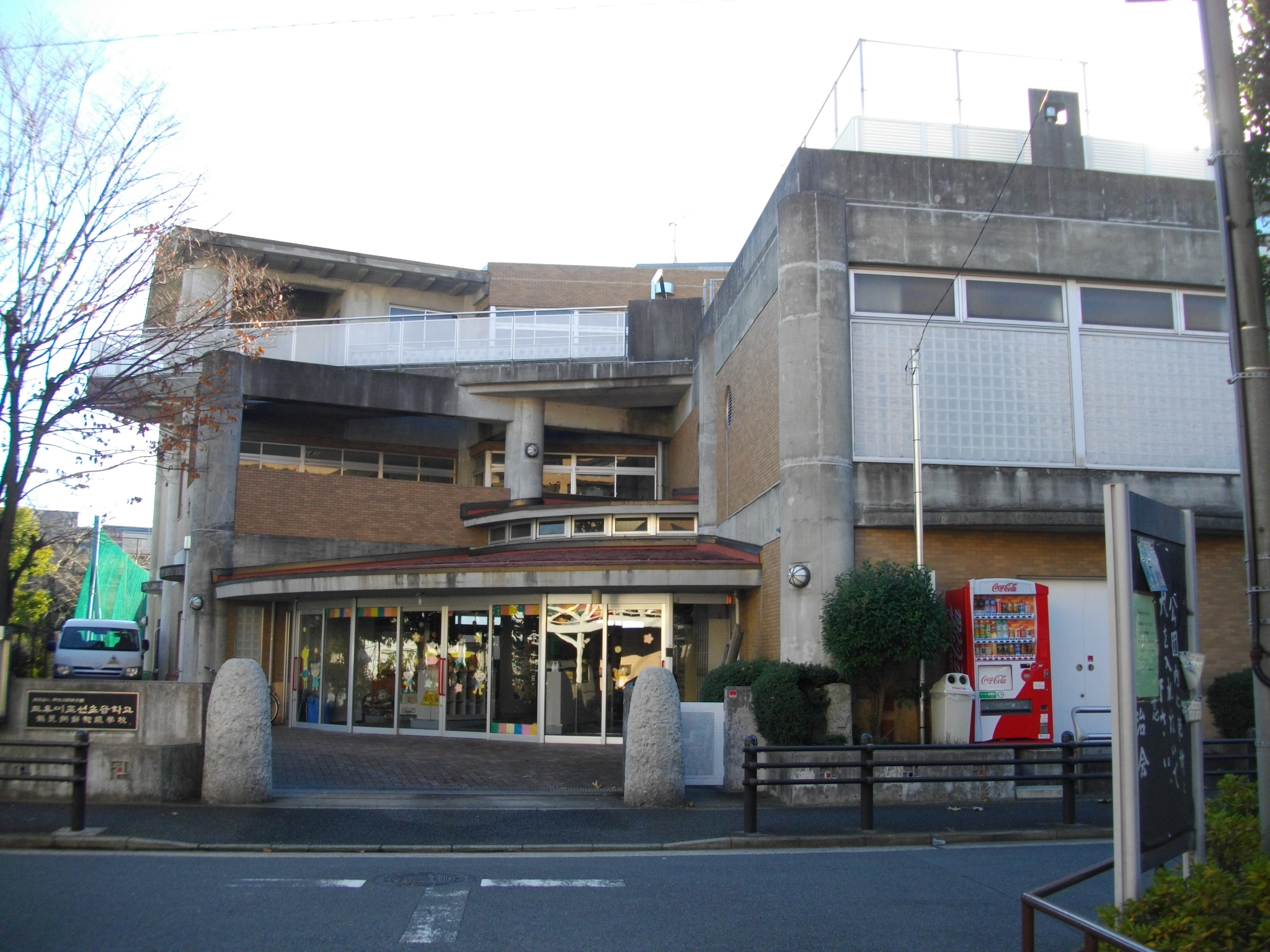 Tsurumi Korean Elementary School